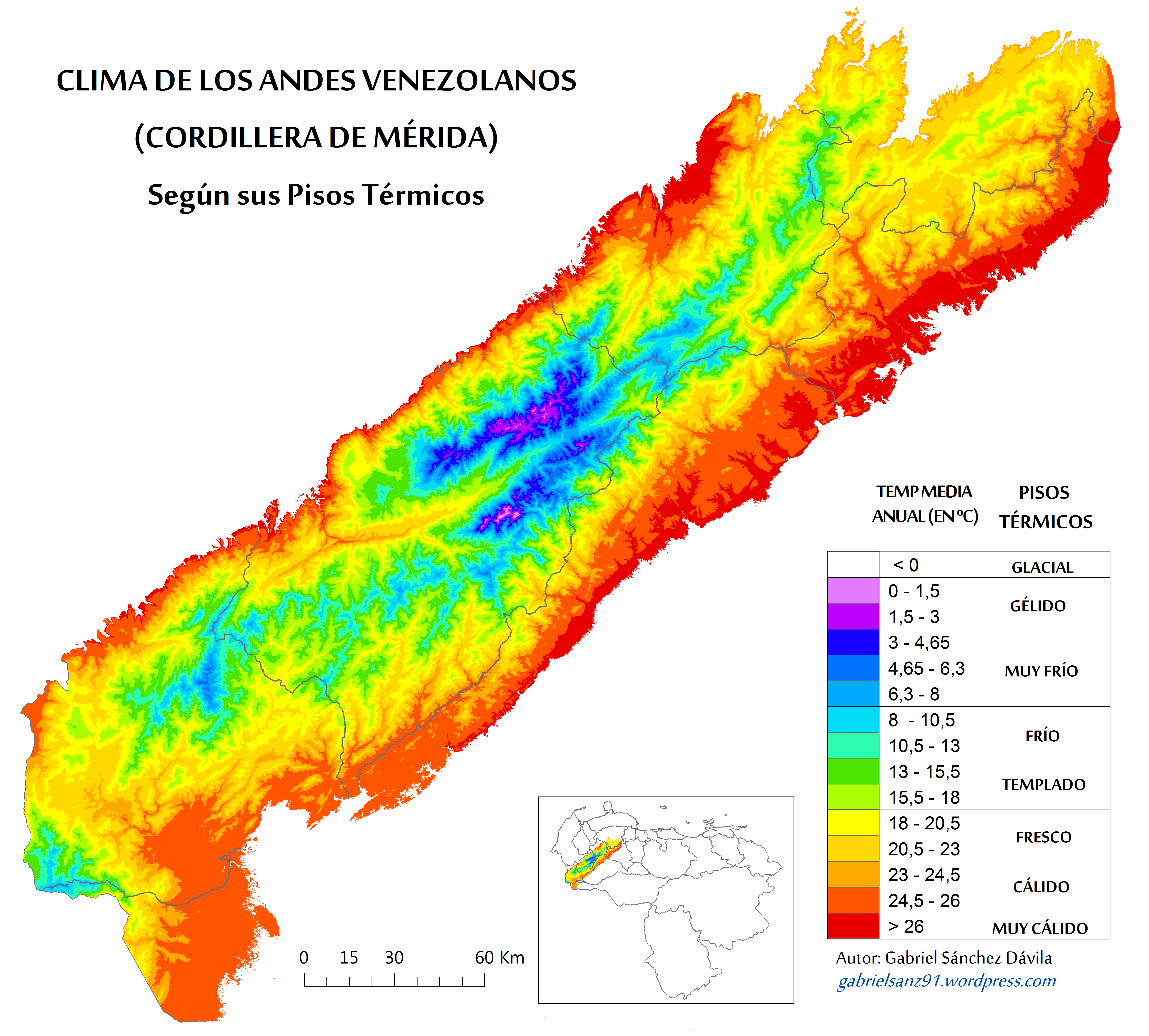 Climatic types of Cordillera de Mérida (Venezuelan Andes), according to their altitudinal zonation (thermal floors).